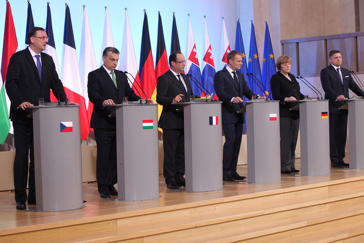 Meeting of V4 countries - Czech Republic, Poland, Slovakia, Hungary, Germany and France.